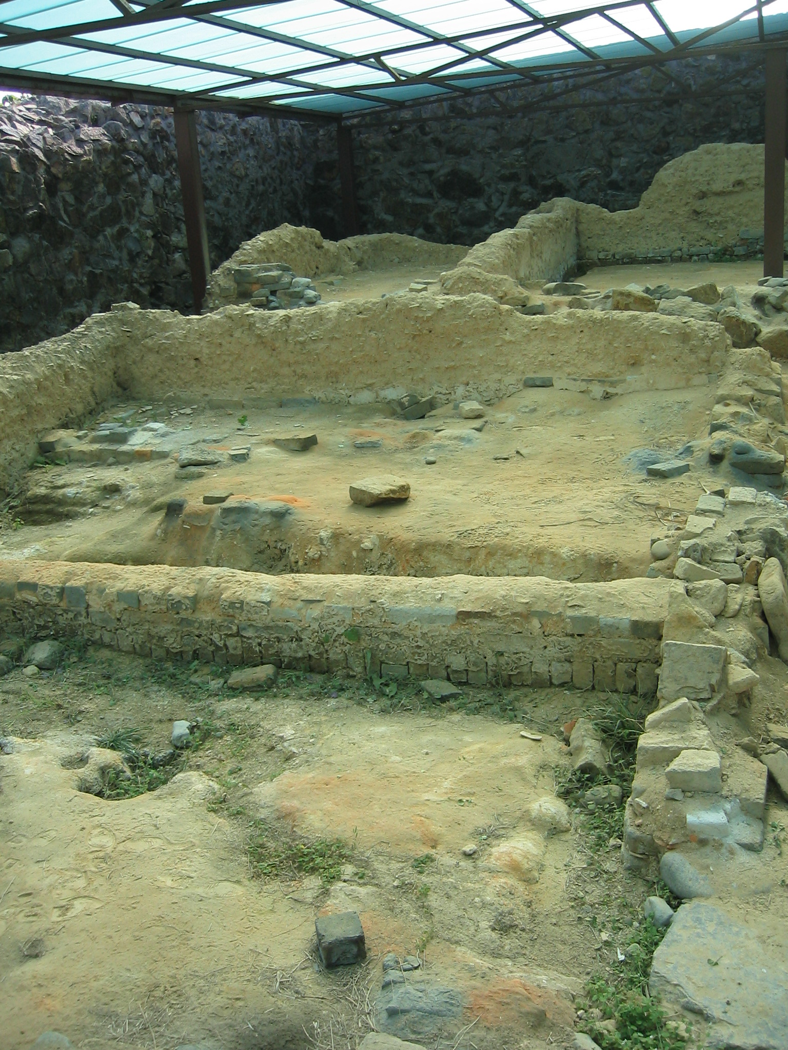 Taken by user:Ngchikit on 26 Dec 2006